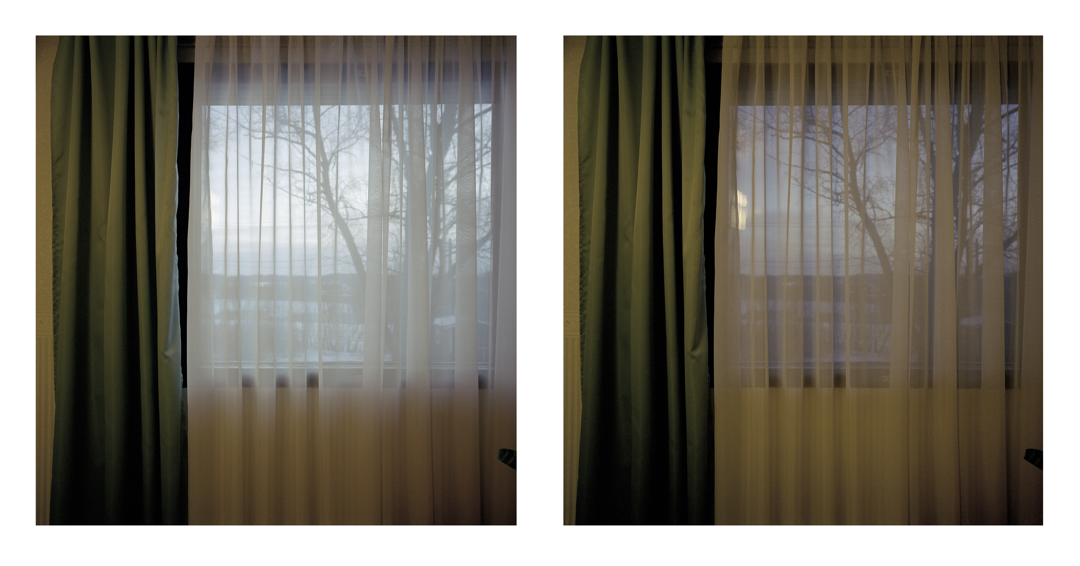 Marko Vuokola, The Seventh Wave - Haze, 2008. Digital colour print, diasec mounted. Diptych 180 x 180 cm x 2. The work also exists in smaller formats.